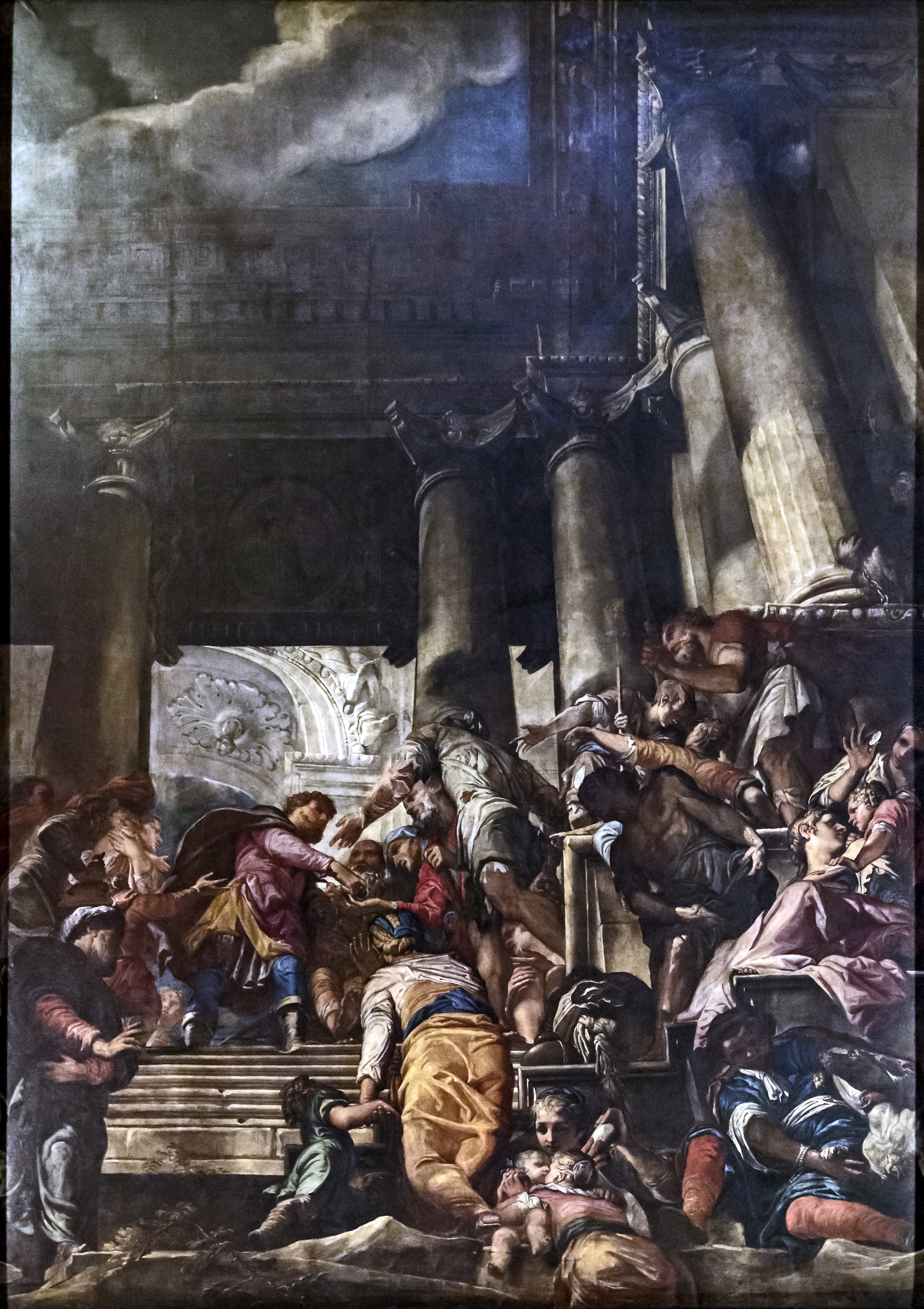 Ceiling of the nave Saint Roch Rocco gives alms to the poor before his pilgrimage to Rome (1675).